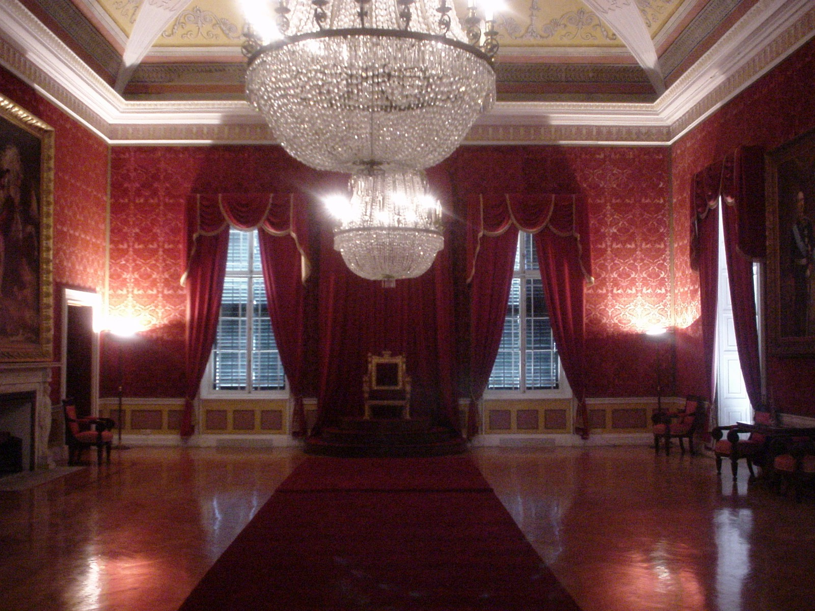 Throne room in the Palace of Sts. Michael and George, Corfu Town, Corfu.